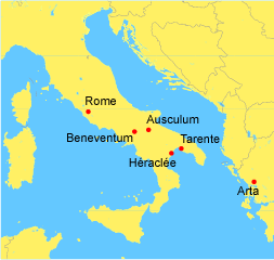 Map in French of the wars between Rome and Taranto